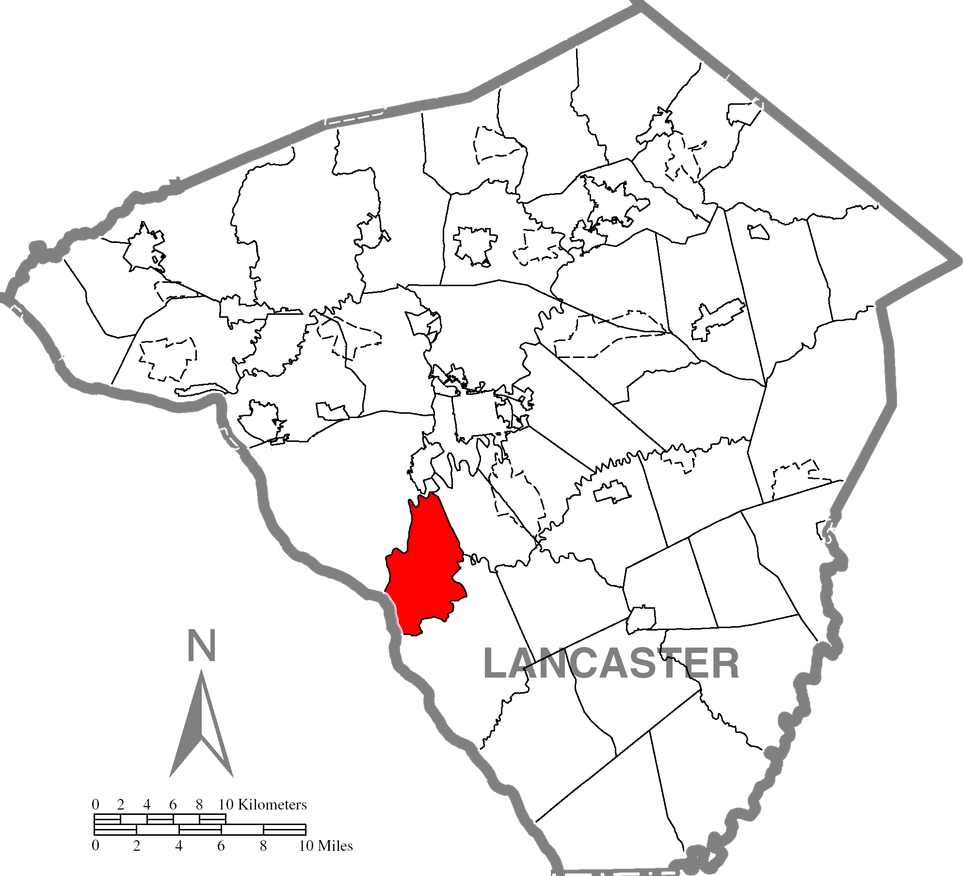 Highlighted Lancaster County map of Conestoga Township.